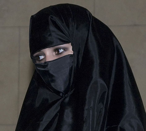 East night.